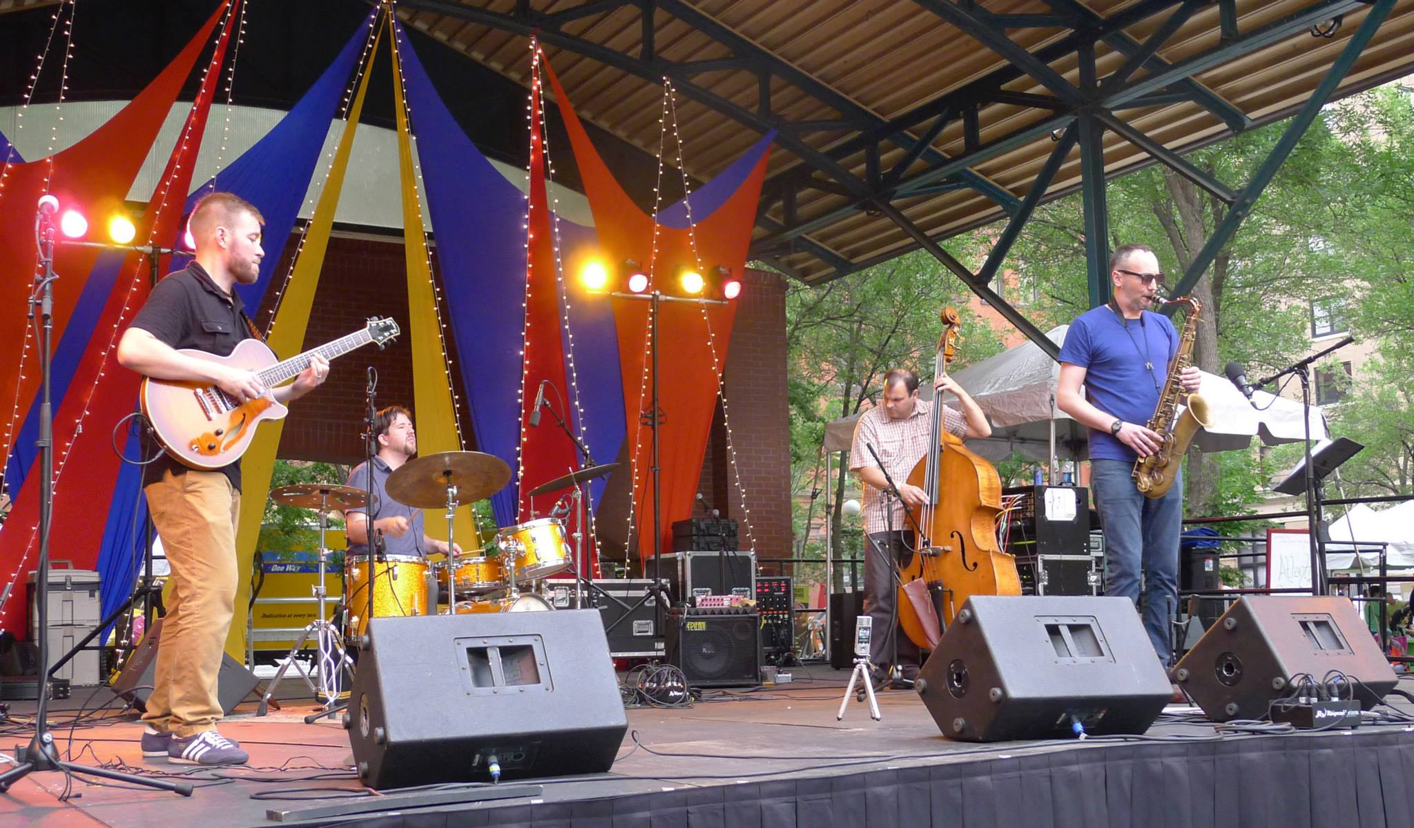 The Atlantis Quartet on the main stage in Mears Park performing in the Twin Cities Jazz Festival.